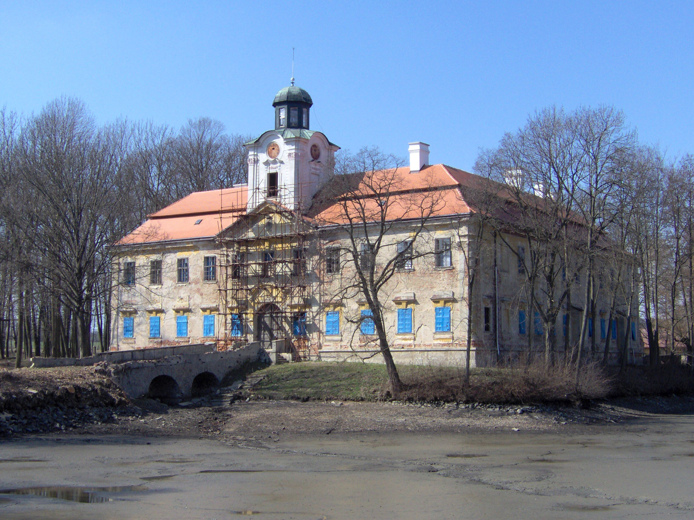 Osová castle, Osová village, Žďár nad Sázavou District, Czech Republic